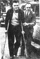 An image of Bob Pratt on crutches after being hit by a truck on VFL grand final eve, 1935.